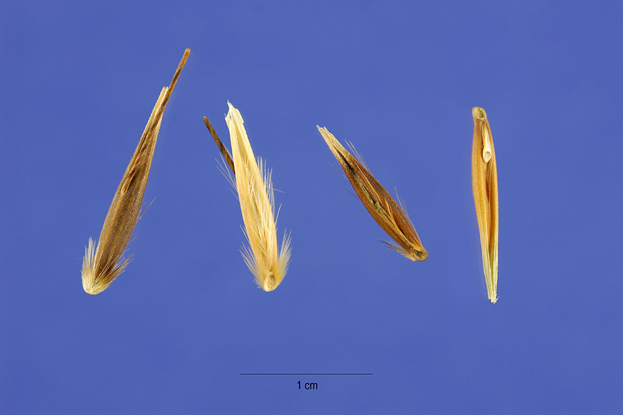 Seeds of Avena fatua